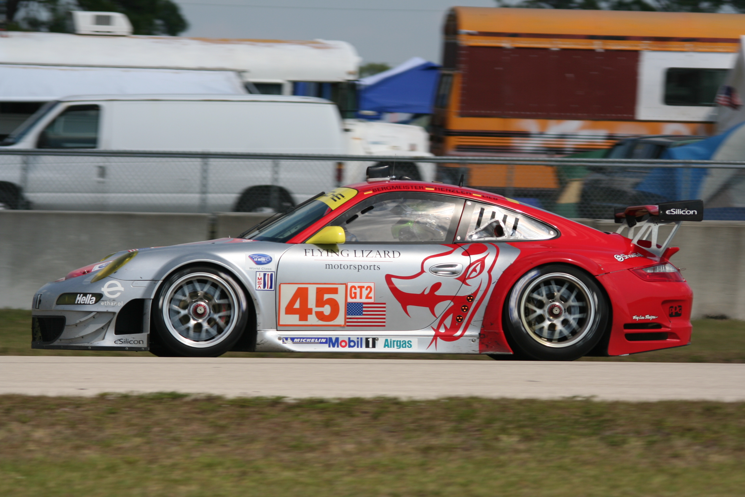 Flying Lizard Porsche driven by Wolf Henzler. Shot by "The Daredevil" at the 2008 12 Hours of Sebring event